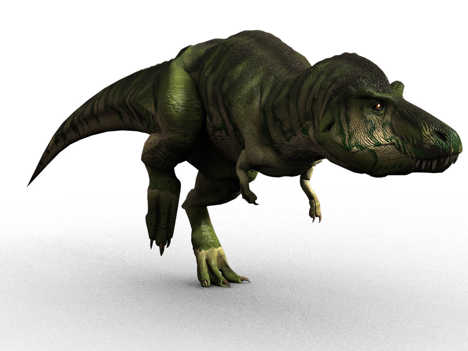 Green Tyrannosaurus rex CG Based on the Sue specimen